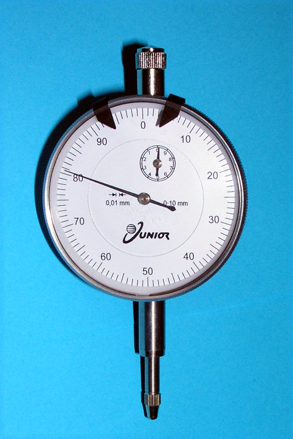 dial indicator